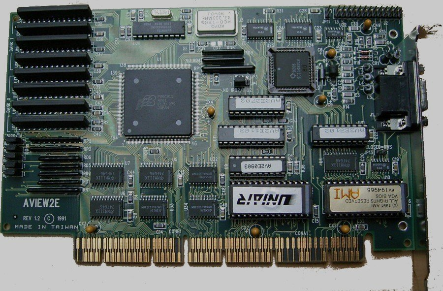 Graphics Card EISA